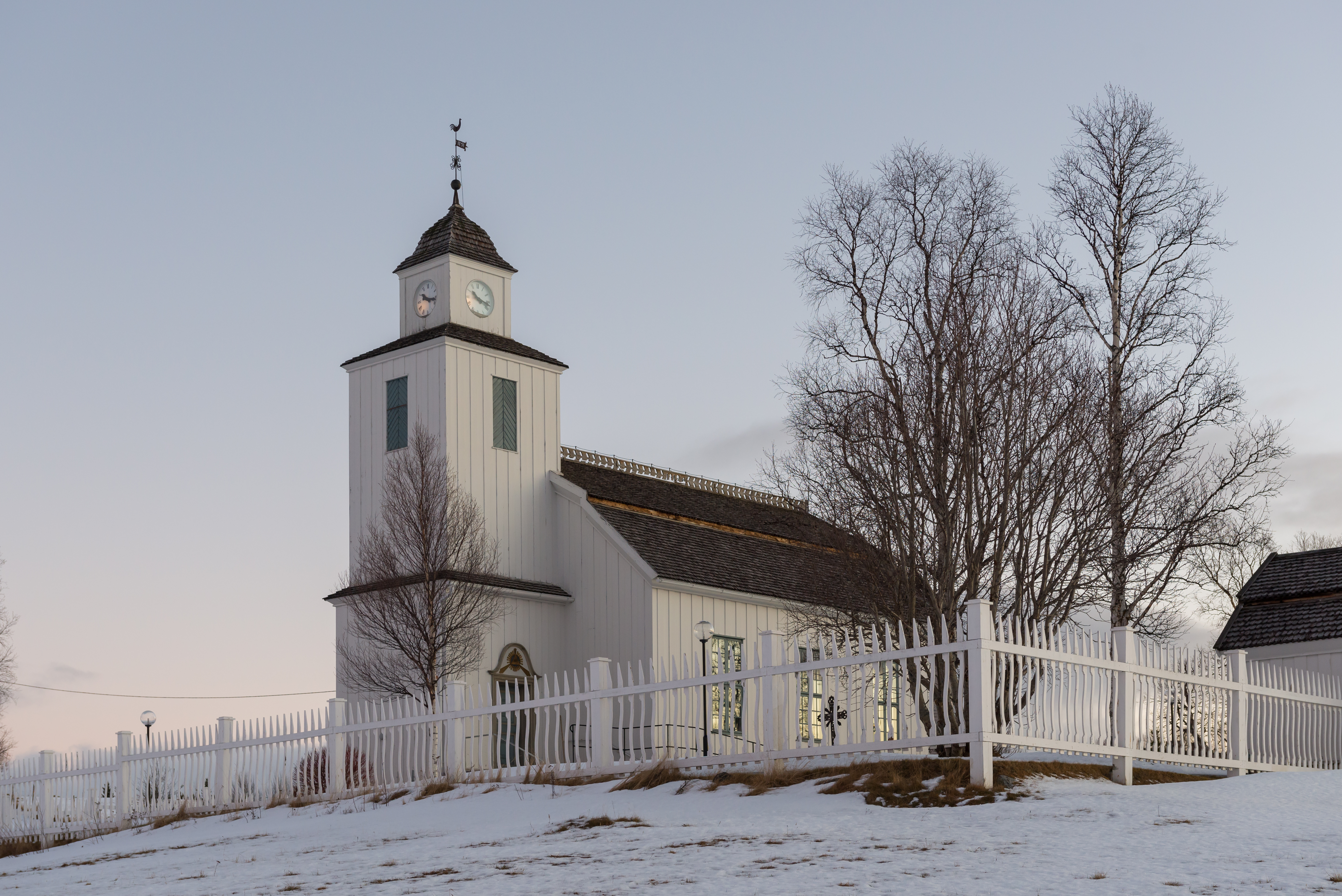 Storsjö kyrka (church) built 1812 in the small village Storsjö in Berg municipality, Jämtland County. Church of Sweden, Diocese of Härnösand, Hedebygdens Parish.